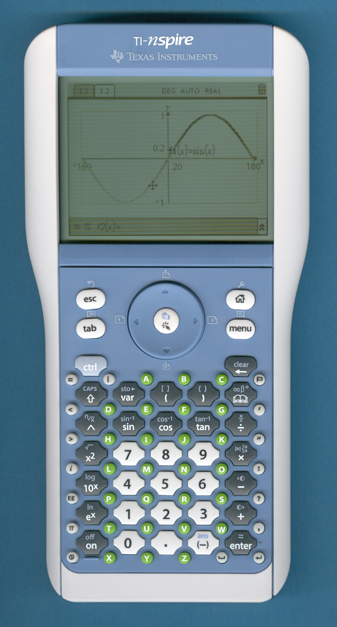 TI-Nspire.